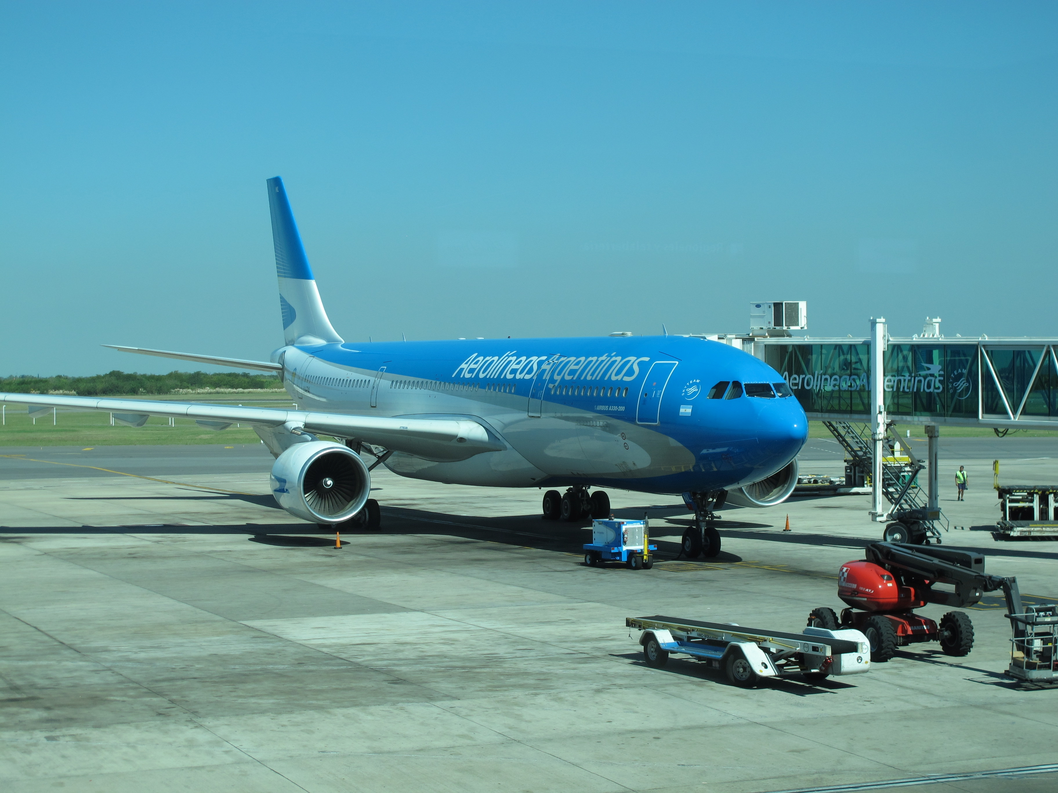 Aerolineas Argentinas Airbus A330 (LV-FNL) at the Buenos Aires-Ezeiza Ministro Pistarini International Airport (EZE/SAEZ)